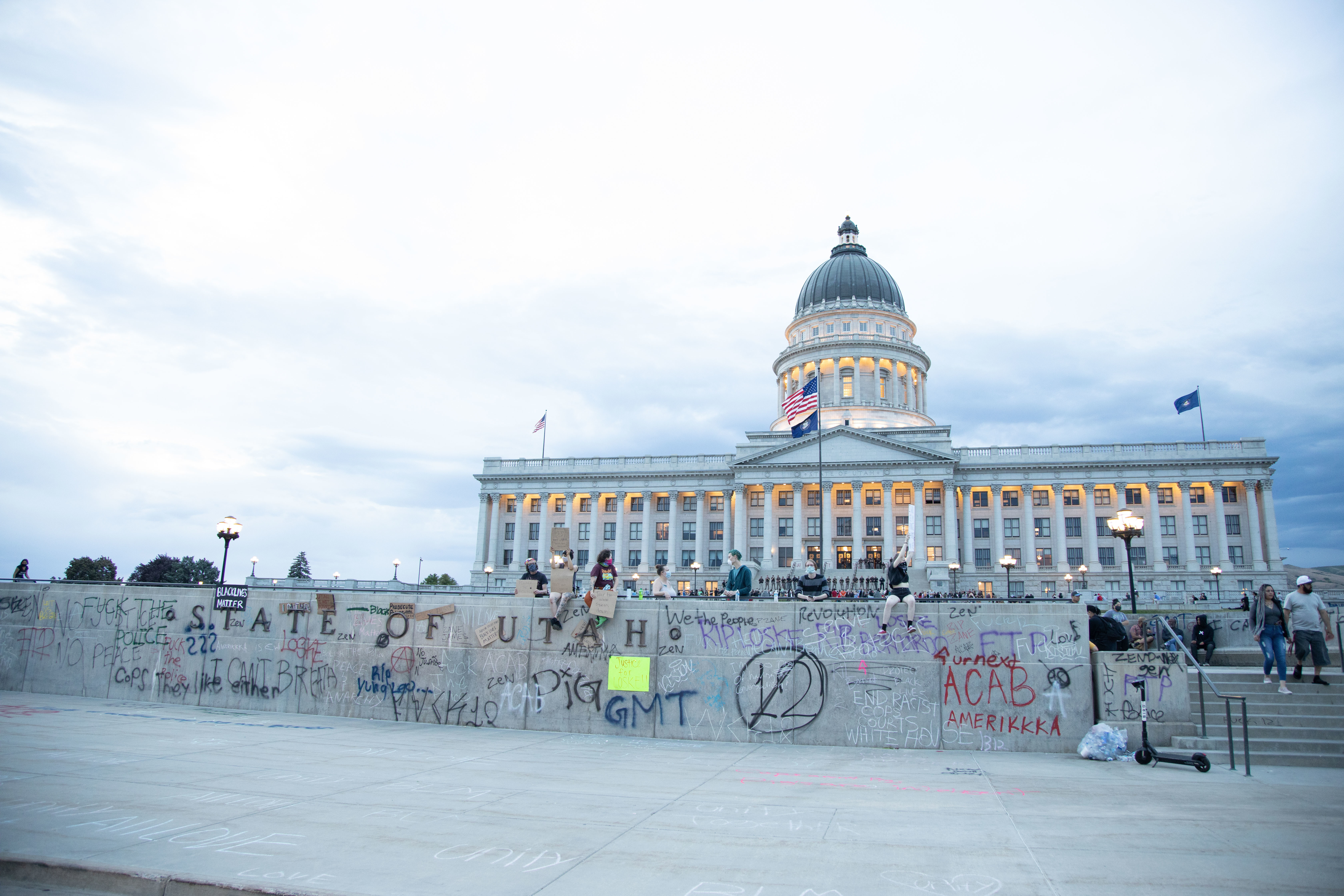 Airman of the 151st Security Forces Squadron answer the call of Utah Governor Gary R. Herbert, to provide an extra layer of safety and security in response to demonstrations and rioting at the Utah State Capitol, as well as, the Salt Lake City and County Building. (US Air National Guard photo by Tech. Sgt. Joe A. Davis)